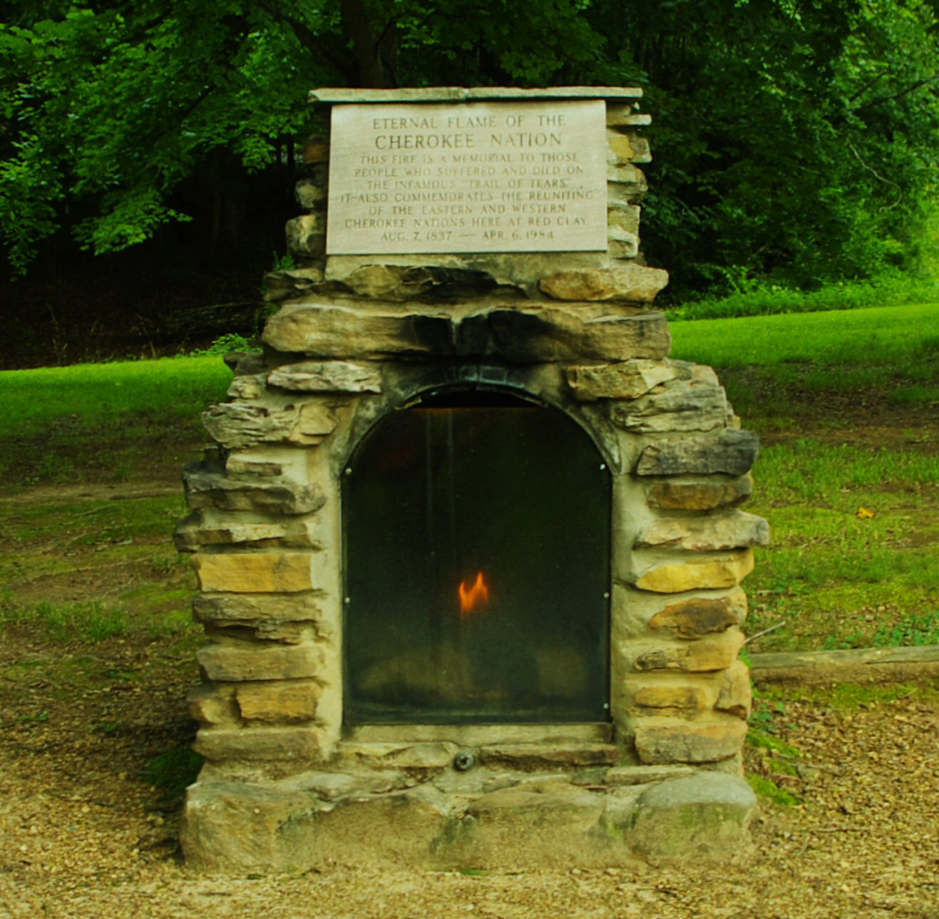 The "Eternal Flame of the Cherokee Nation" at Red Clay State Park in Bradley County, Tennessee, United States. The plaque reads: Eternal Flame of the Cherokee Nation This fire is a memorial to those people who suffered and died on the infamous "Trail of Tears." It also commemorates the reuniting of the Eastern and Western Cherokee Nations here at Red Clay. Aug. 7, 1837 — Apr. 6, 1984